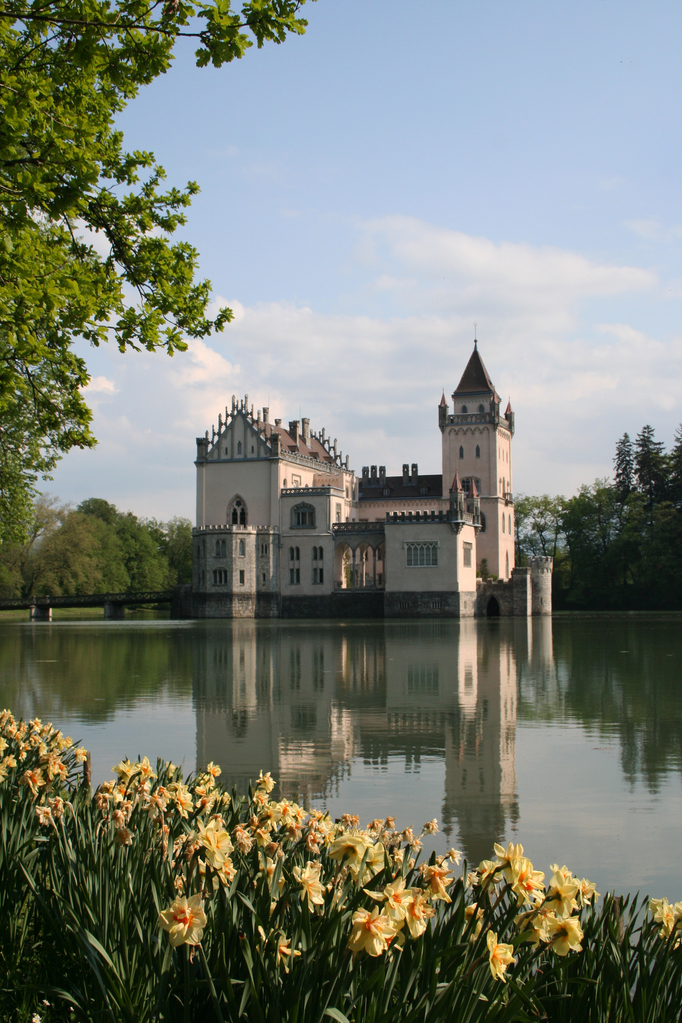 Schloss Anif mit Einrichtung und Park